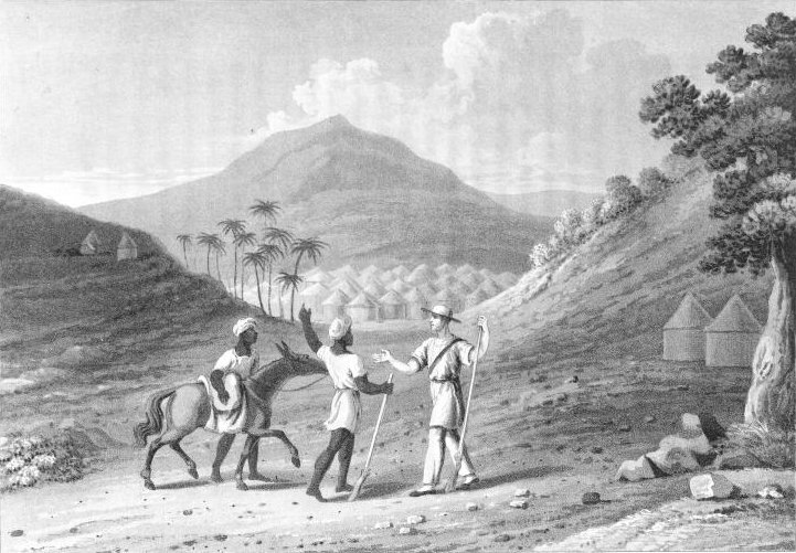 View of Timbo (1818)